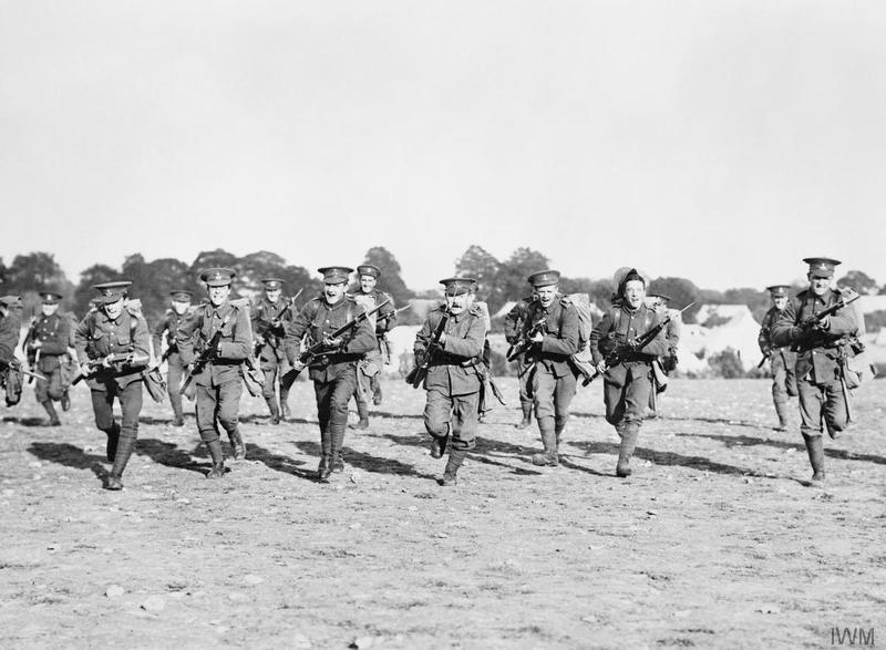 Sport and General Press Agency Collection Men of 3/20th London Regiment (Blackheath and Woolwich) making a bayonet attack during training: October 1915.